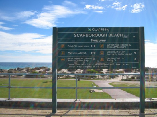 Scarborough Beach is one of the most favorable beaches by the locals in Perth.